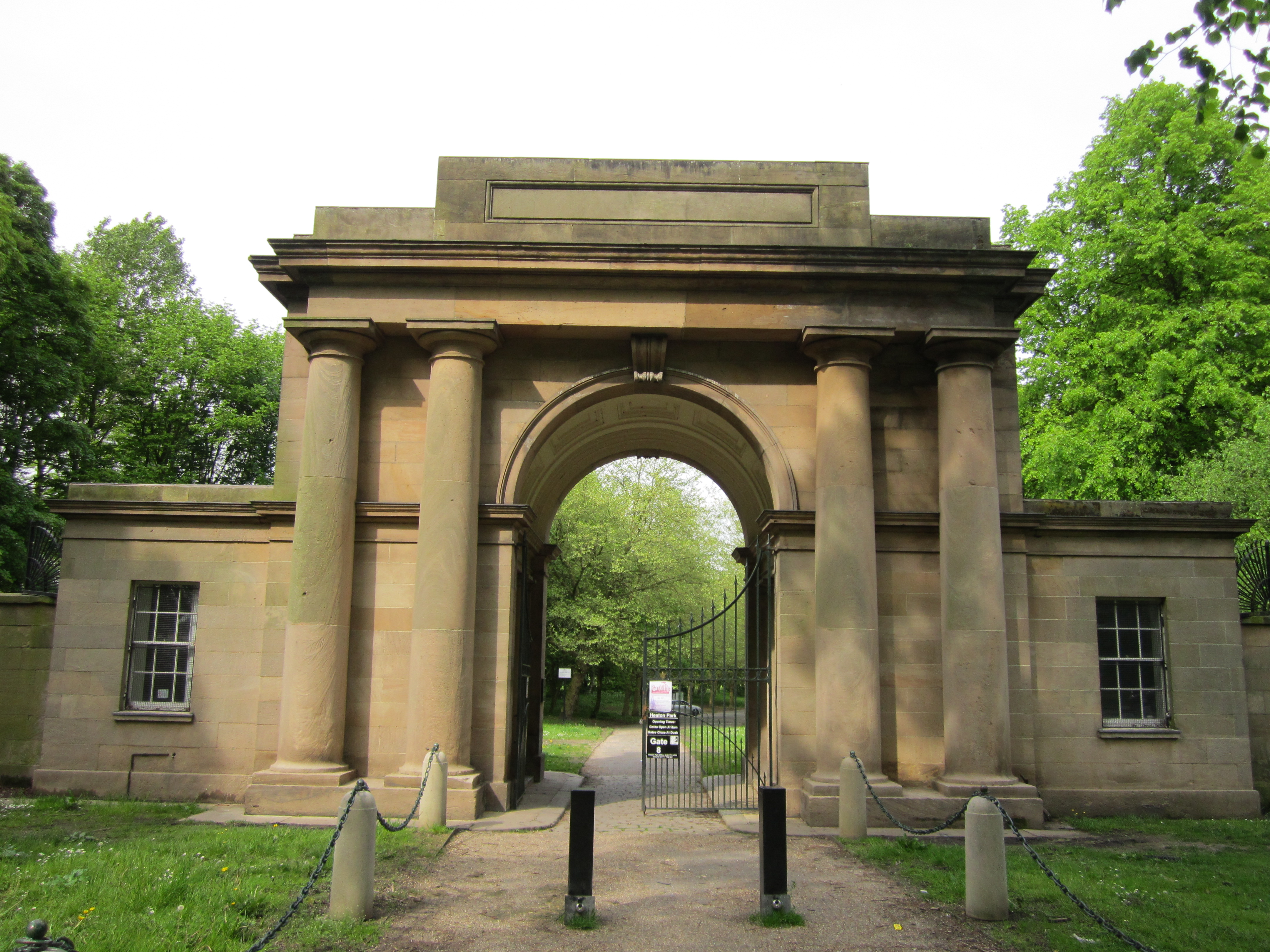 Grand Lodge, Heaton Park, Manchester, England.